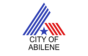 Flag of Abilene, Texas, made by me based on the photograph of the actual thing on